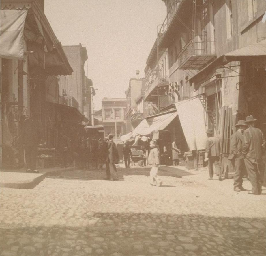 Busy alley scene in Chinatown, San Francisco. Call number: BANC PIC 1993.033 -- ALB:209 Digital ID: cubcic brk7595